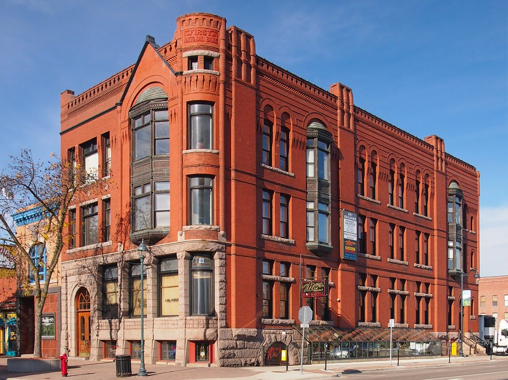 First National Bank, 501 St Germain St, St Cloud, Minnesota, USA. Viewed from the east.